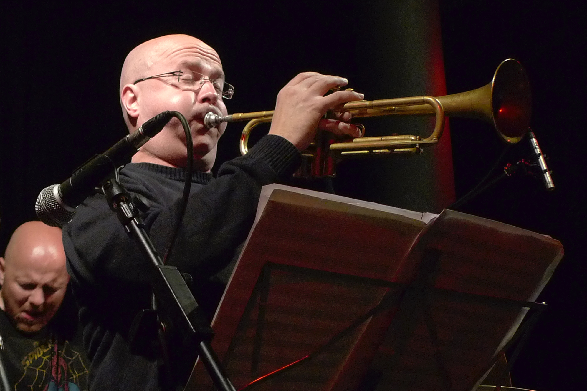 Swedish jazz musician Magnus Broo at the Vortex Jazz Club (2010)